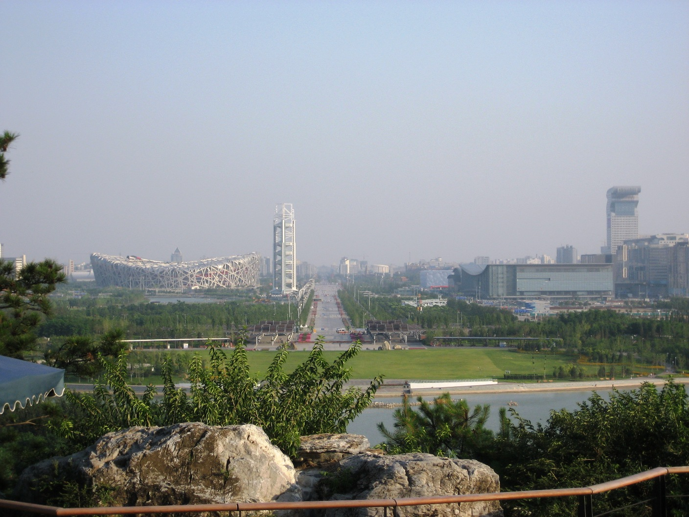 The Olympic Forest Park is located close to the National Stadium (Bird's nest) in the north of the city center of Beijing, the capital of the Peoples Republic of China. Photo by: P. Feiereisen in July 2009.